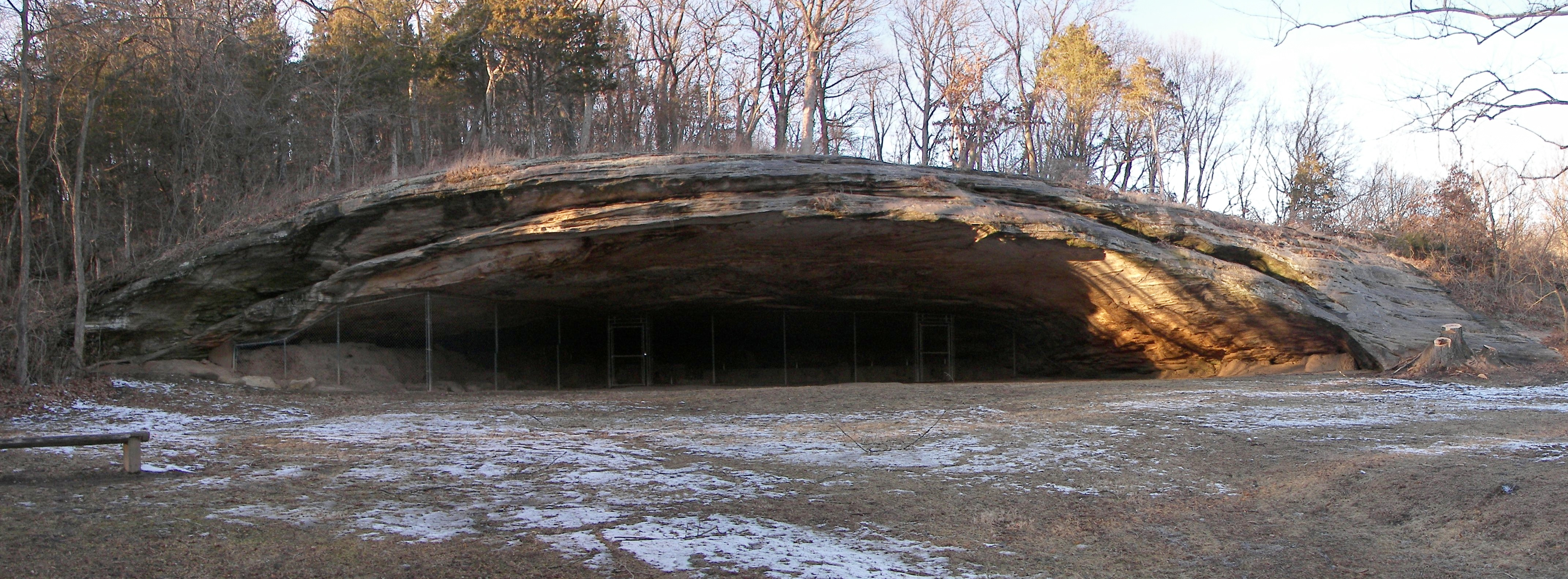 Graham Cave is a Native American archaeological site near Mineola, Missouri in Montgomery County. The entrance of the sandstone cave forms a broad arch 120 feet (37 m) wide and 16 feet (5 m) high. Extending about 100 feet (30 m) into the hillside, the cave protects an historically important Pre-Columbian achaeological site from the ancient Dalton and Archaic period dating back to as early as 10,000 years ago. This image is a panoramic composite of four photographs taken with a Kodak P850 digital camera. The panorama was created with the software program "hugin".